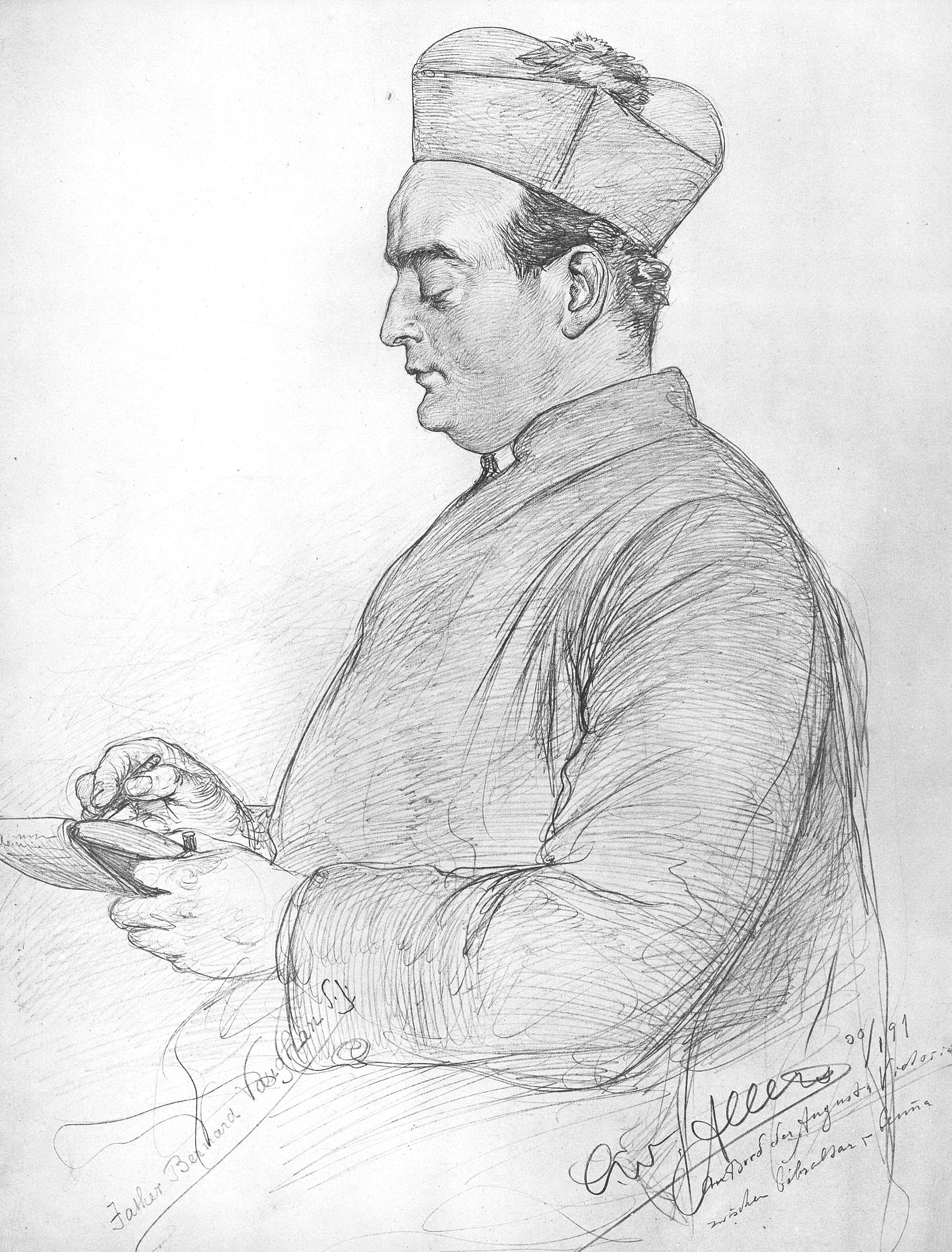 Father Bernard Vaughan on steam ship Augusta Victoria.